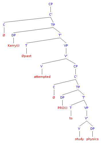 This is a syntactic tree diagram of the sentence "Kerry attempted to study physics" in order to show the relation of PRO ('big pro') to a main subject.